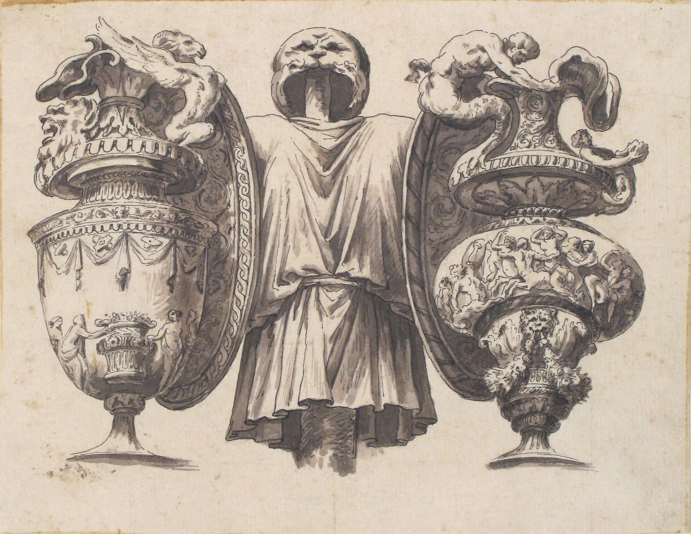 Drawing Ornament & Architecture; Drawings